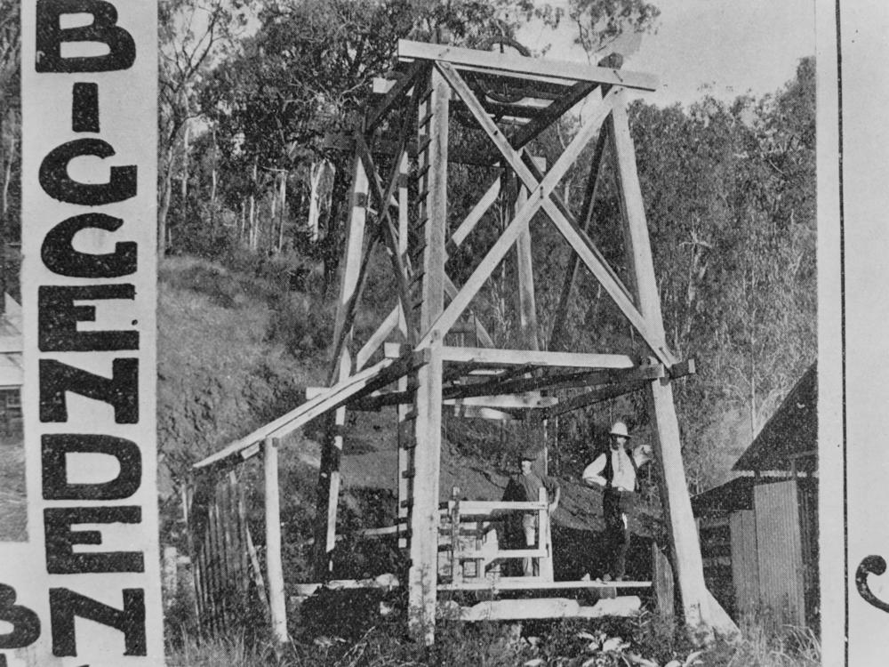 Biggenden Bismuth Mine. The Biggenden Bismuth Mine showing the poppet at the head of the big shaft. (Description supplied with photograph).